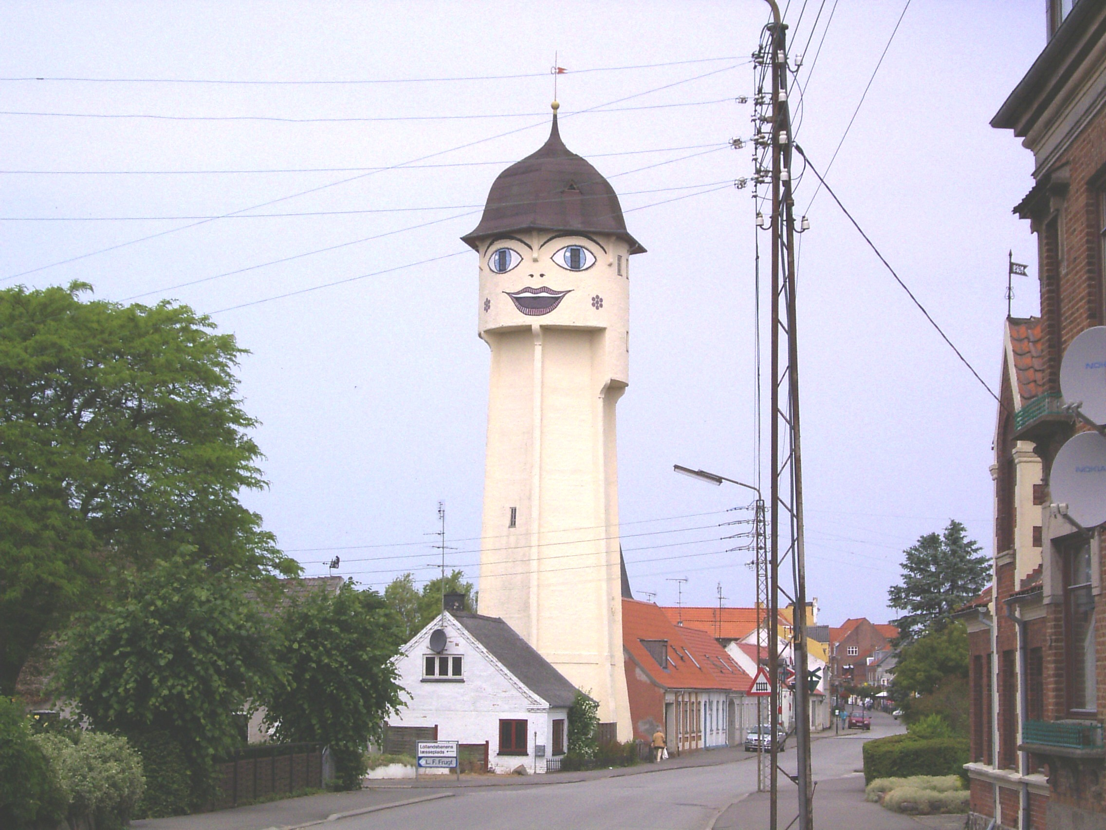 Water tower of Sakskøbing, Community of Sakskøbing, Lolland, Denmark. Date: 2006.07.12 Author: Sir48